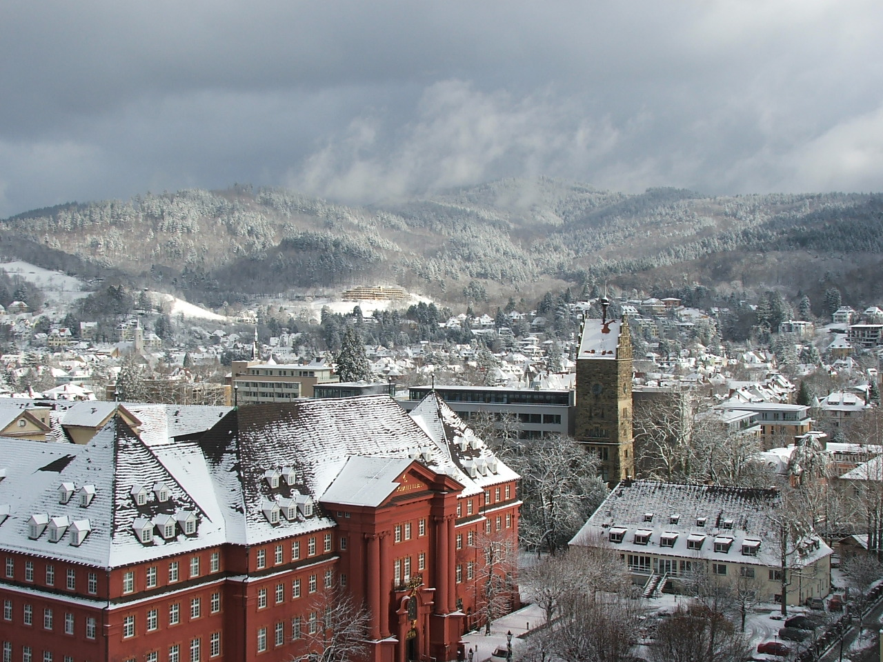 The red building is Herder Publishing House (from 1912)